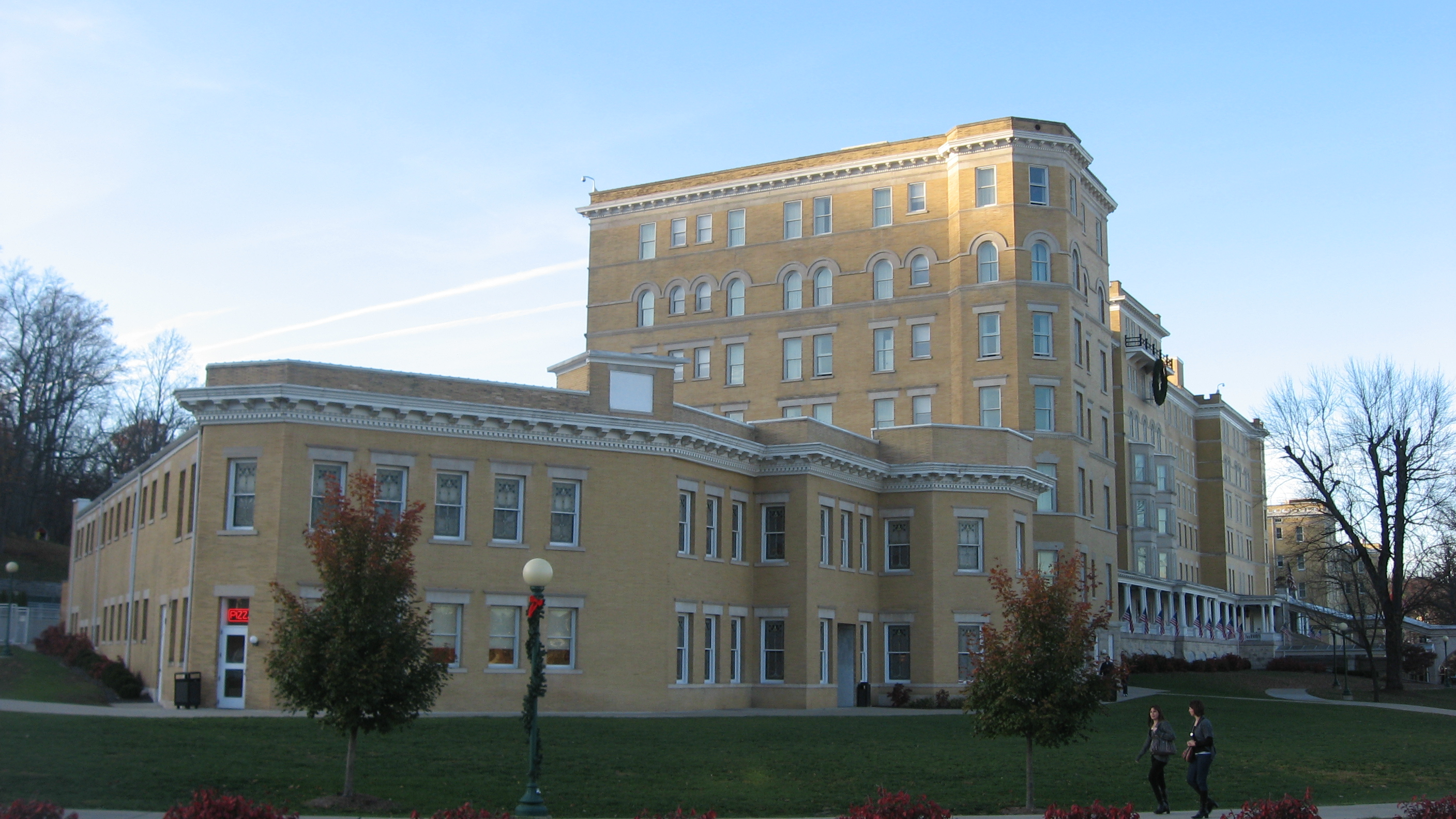 Front and southern end of the French Lick Springs Hotel, located at 8670 W. State Road 56 in French Lick, Indiana, United States. Built in 1902 and since converted into a casino, it and the surrounding grounds are listed together on the National Register of Historic Places.